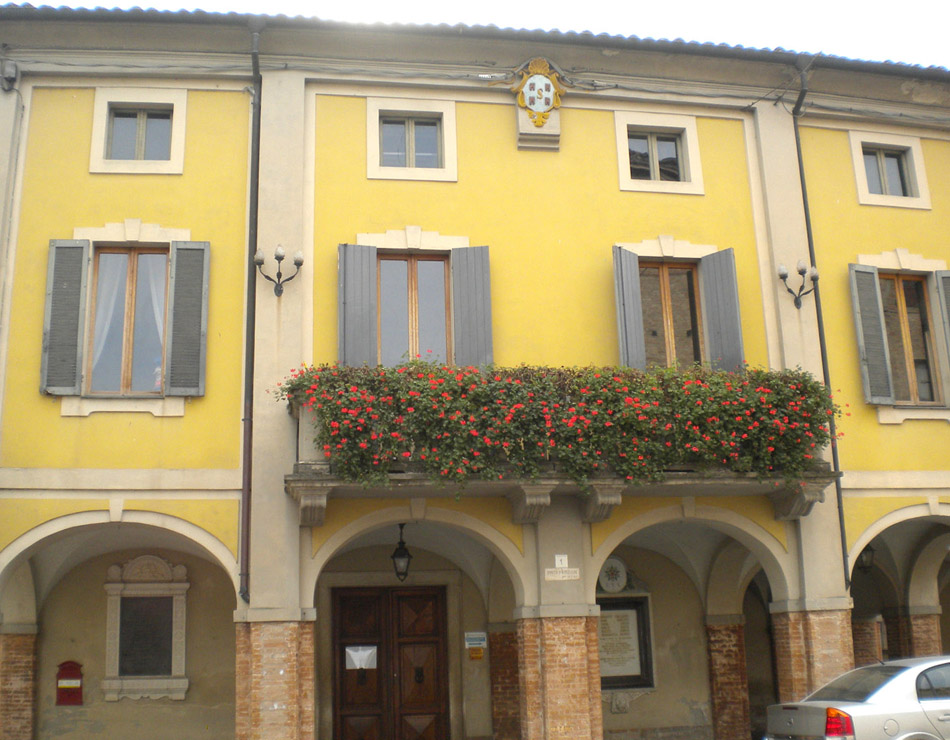 The Municipality Palace of Soragna, Italy.